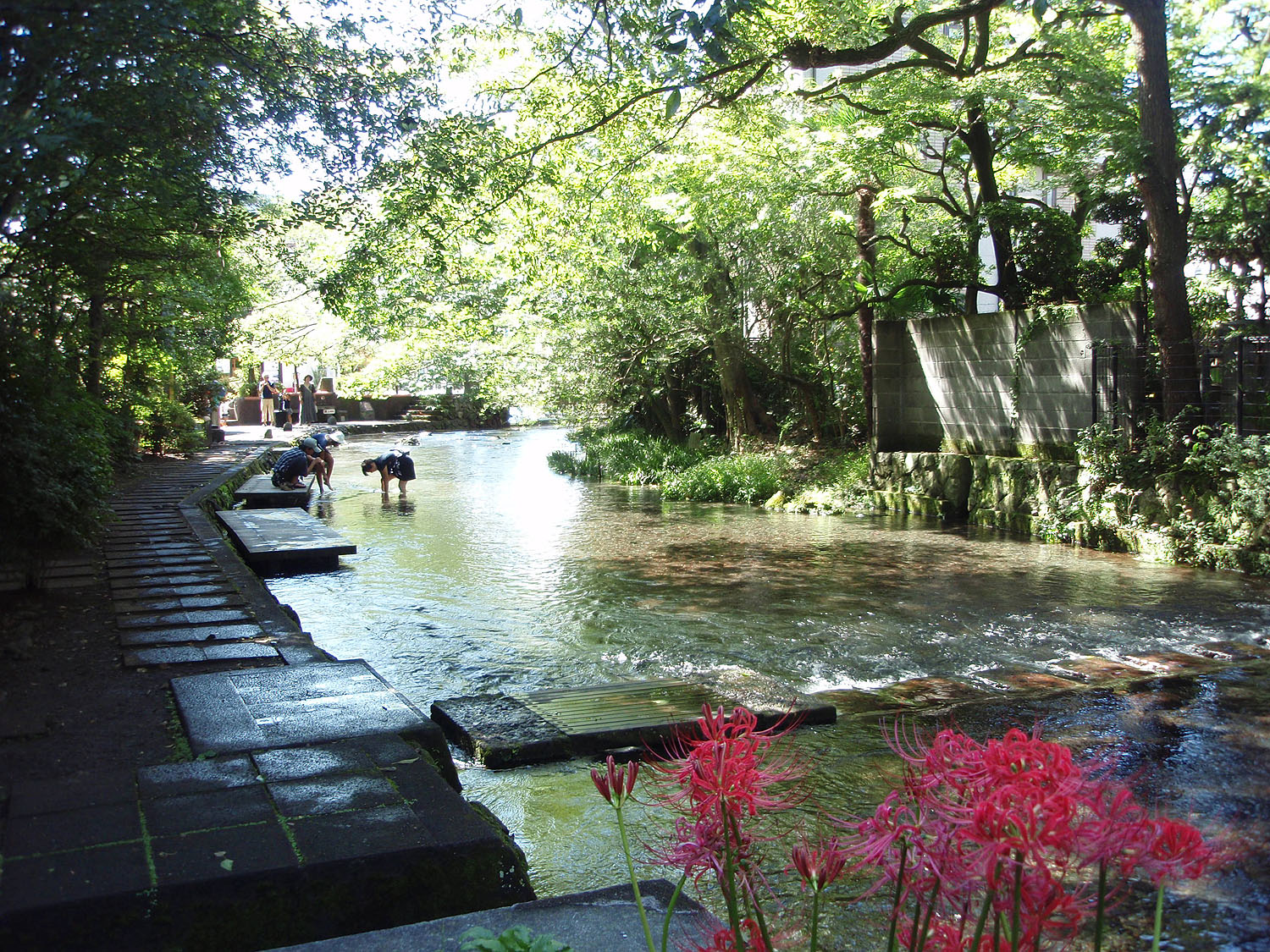 Genbei River in Mishima, Shizuoka Prefecture, Japan.